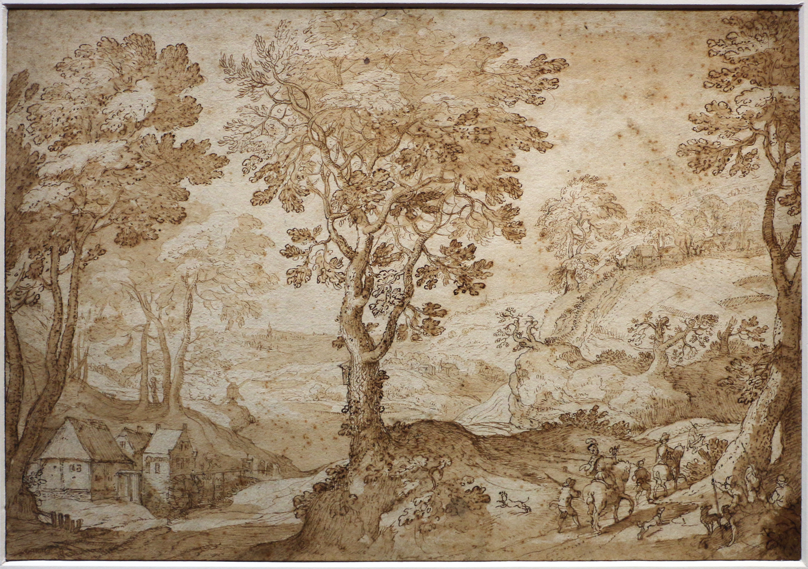 Exhibition From Floris to Rubens Master drawings from a Belgian private collection